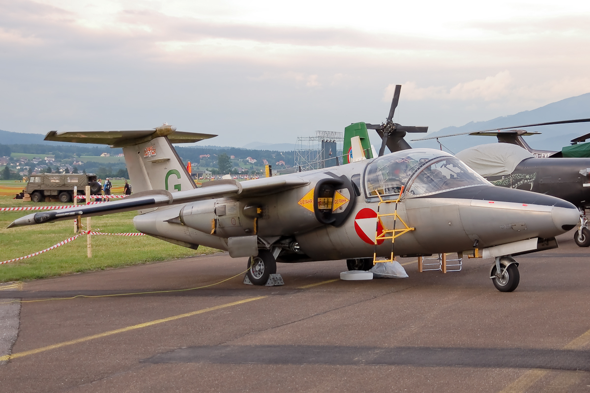 Austrian Airforce Saab 105OE